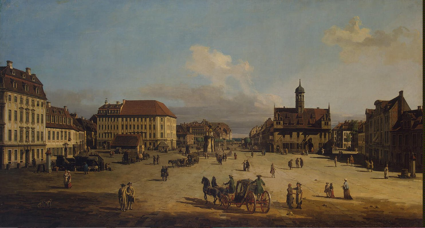 Dresden